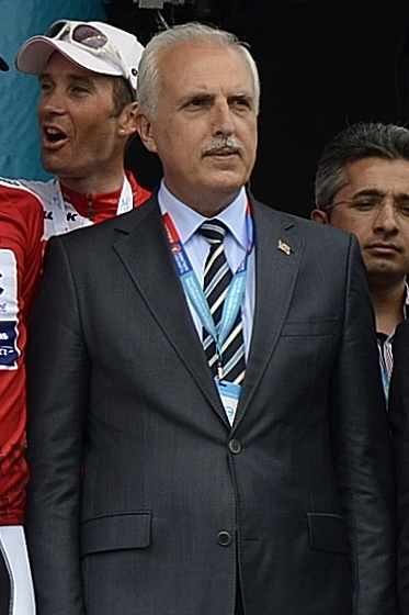 Hüseyin Avni Mutlu at Tour of Turkey 2014